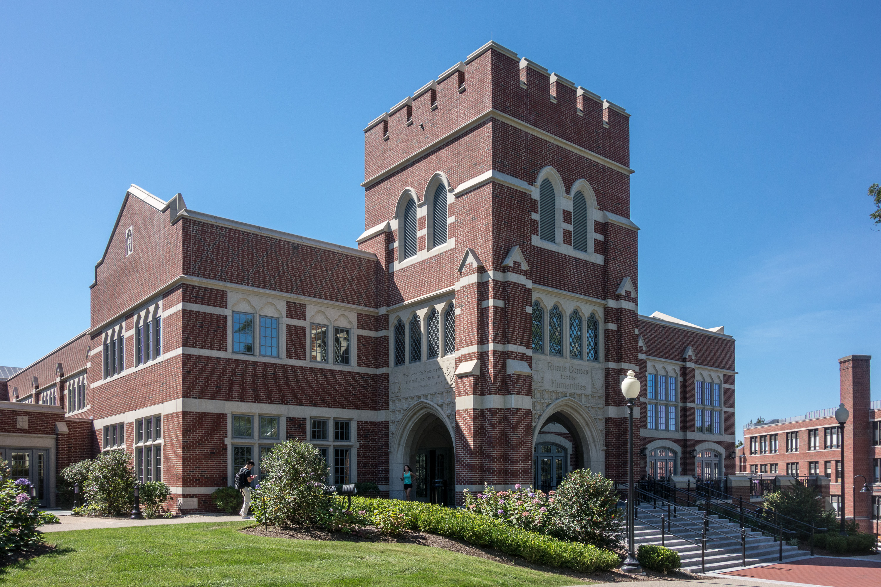 Ruane Center for the Humanities, Providence College, Providence Rhode Island.